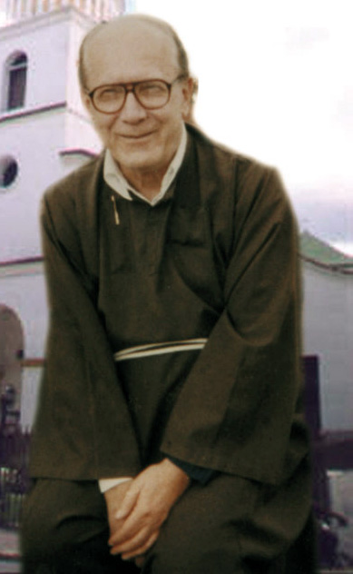 Fr. Augustin Augustinovic, Bosnian Franciscan, lived in Venezuela